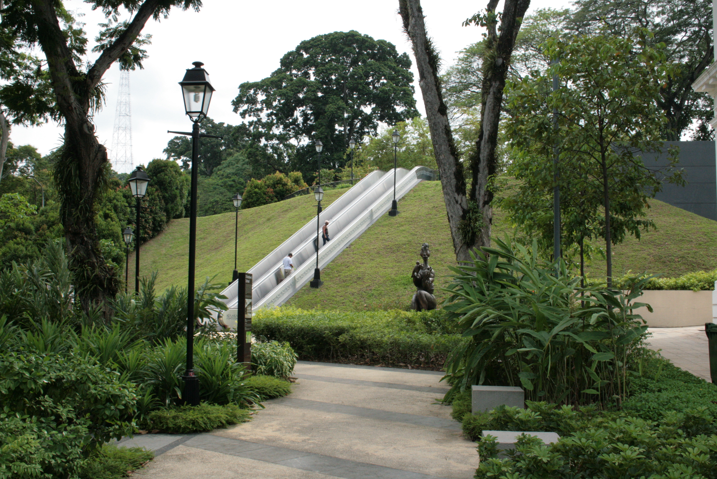 Escalators leading to Fort Canning Hill, Singapore.